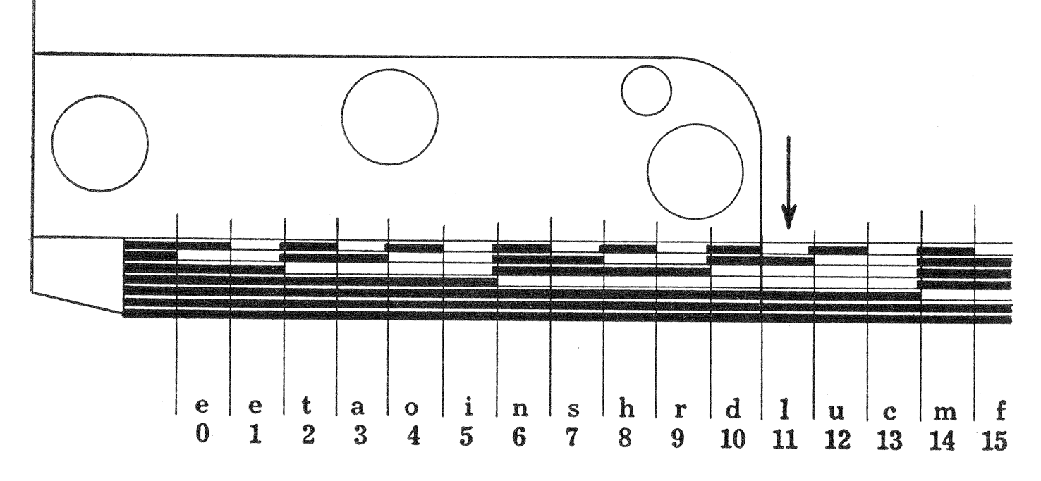 Diagram of tooth coding of the distributor rail, showing the first few positions of the rail. The coding is basically straight binary. Note that there are two positions for "e"; there are two magazine slots for that letter because of its high frequency